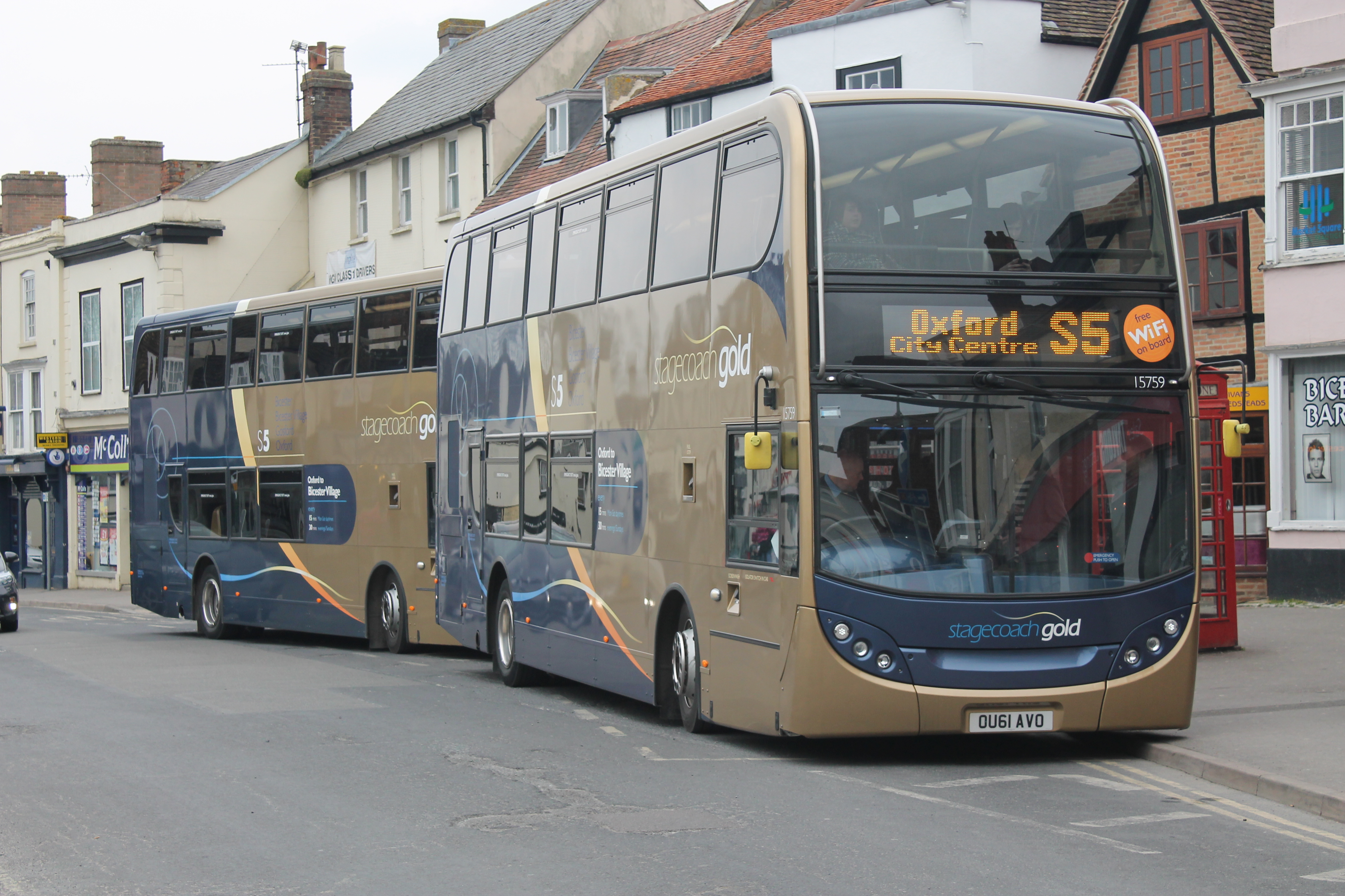 Two Stagecoach in Oxfordshire buses on route S5 in Market Square, Bicester, Oxfordshire. Each is a Scania N230UD with an Alexander Dennis Enviro400 body. The bus nearer the camera is fleet number 15759, registration mark OU61 AVO.